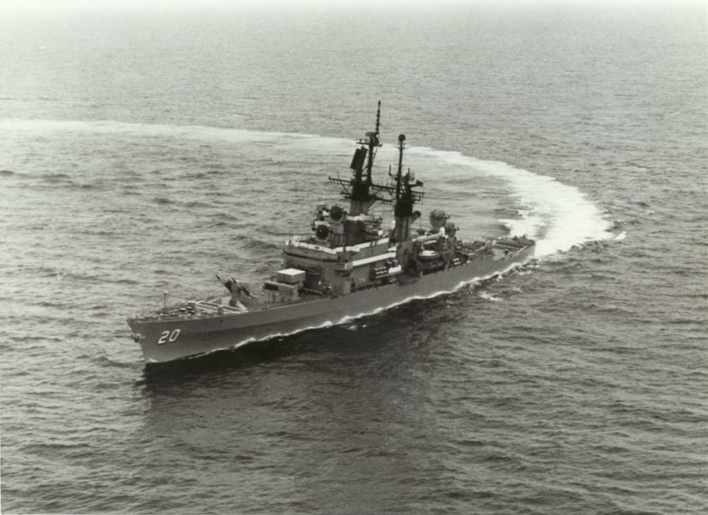 The U.S. Navy guided missile cruiser USS Richmond K. Turner (CG-20) underway at sea, circa in the mid-1980s.